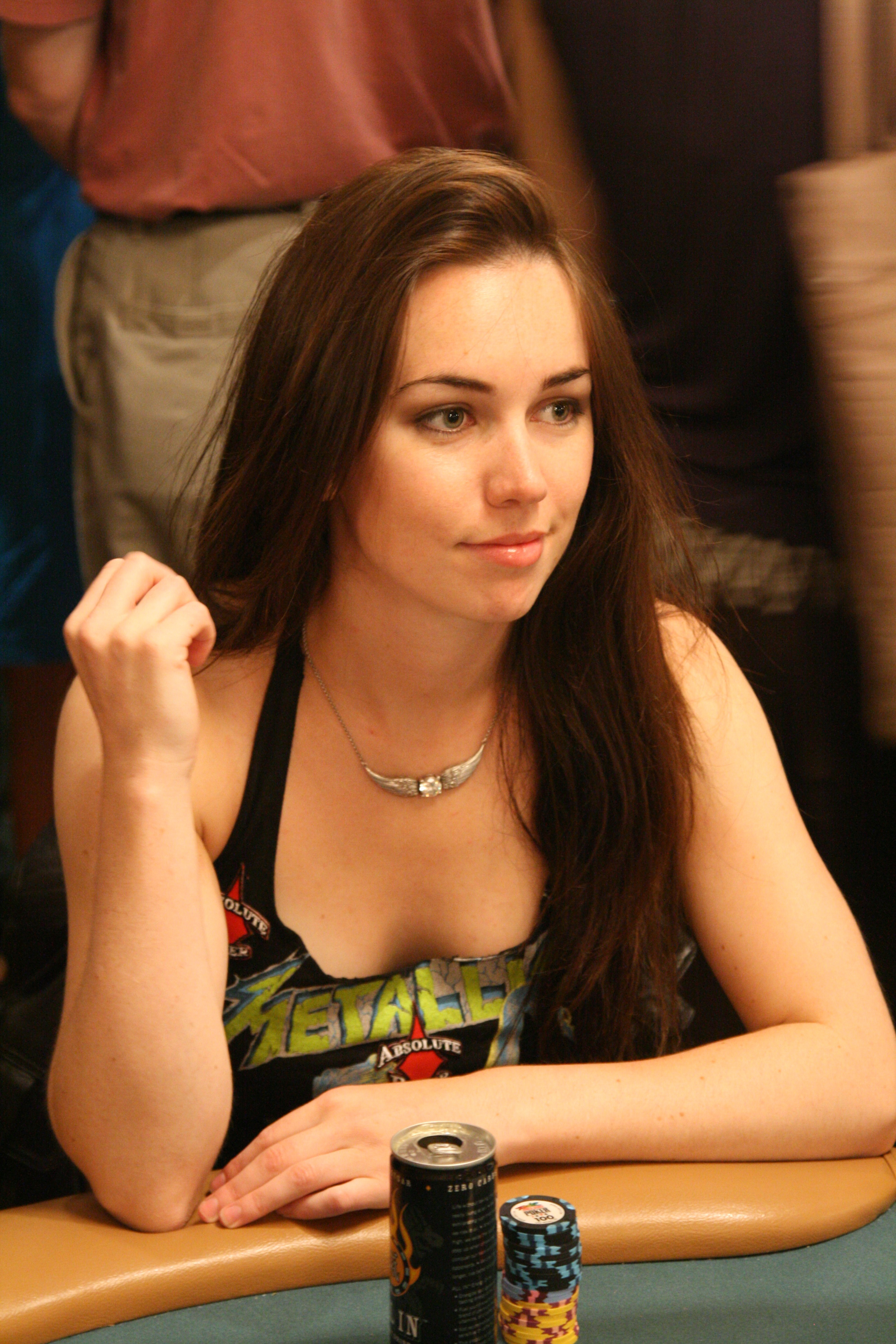 Liv Boeree at the 2008 World Series of Poker